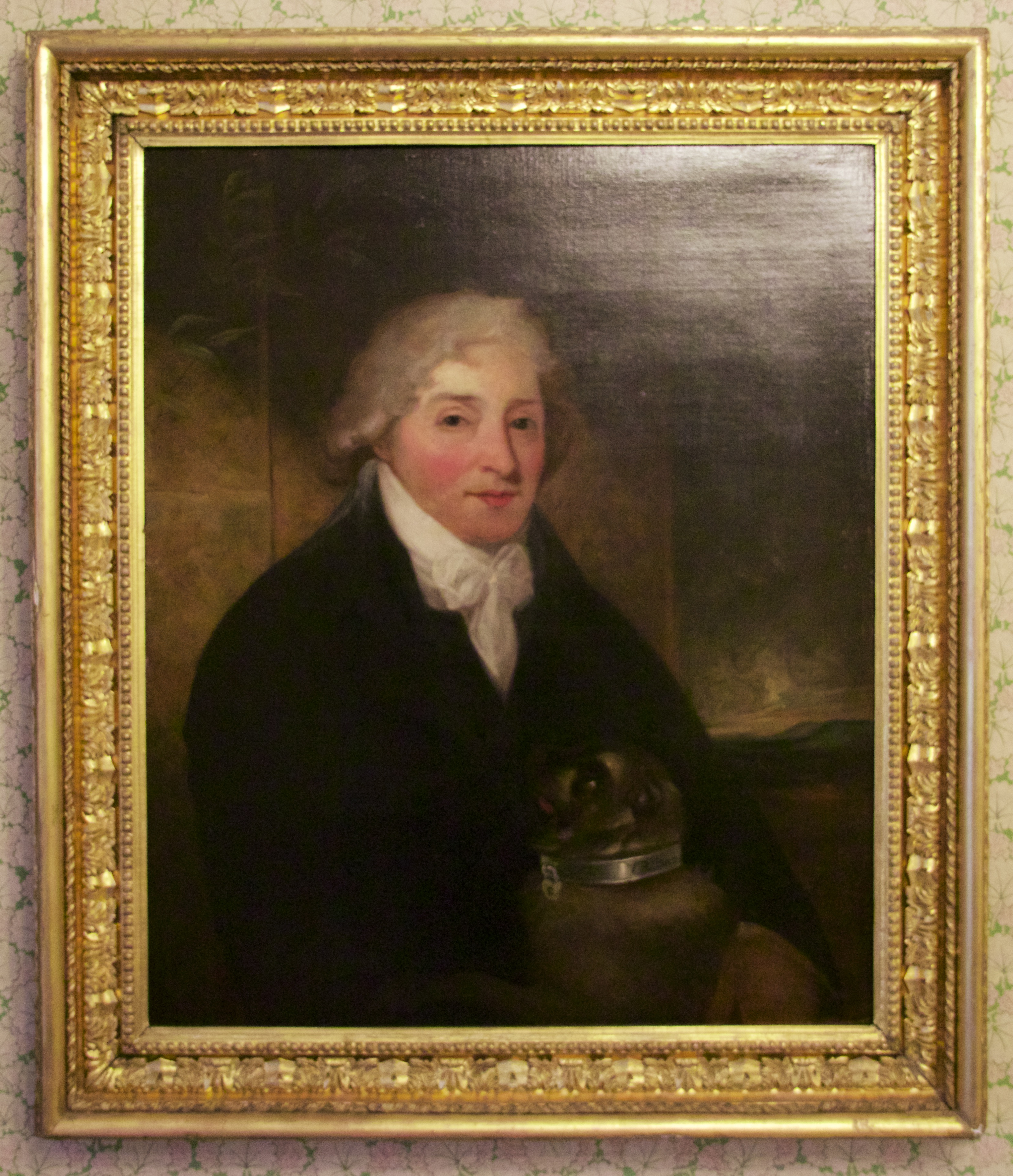 "Joseph Hutchkinson, Venanzio Rauzzini with his dog Turk, 1795. Razzini succeeded William Herschel to the coveted position of Director of Music for the Pump Room and Assembly Rooms in Bath. Rauzzini was a friend of Joseph Haydn, and Haydn stayed with him on his visits to the city." At the William Herschel Museum, Bath.